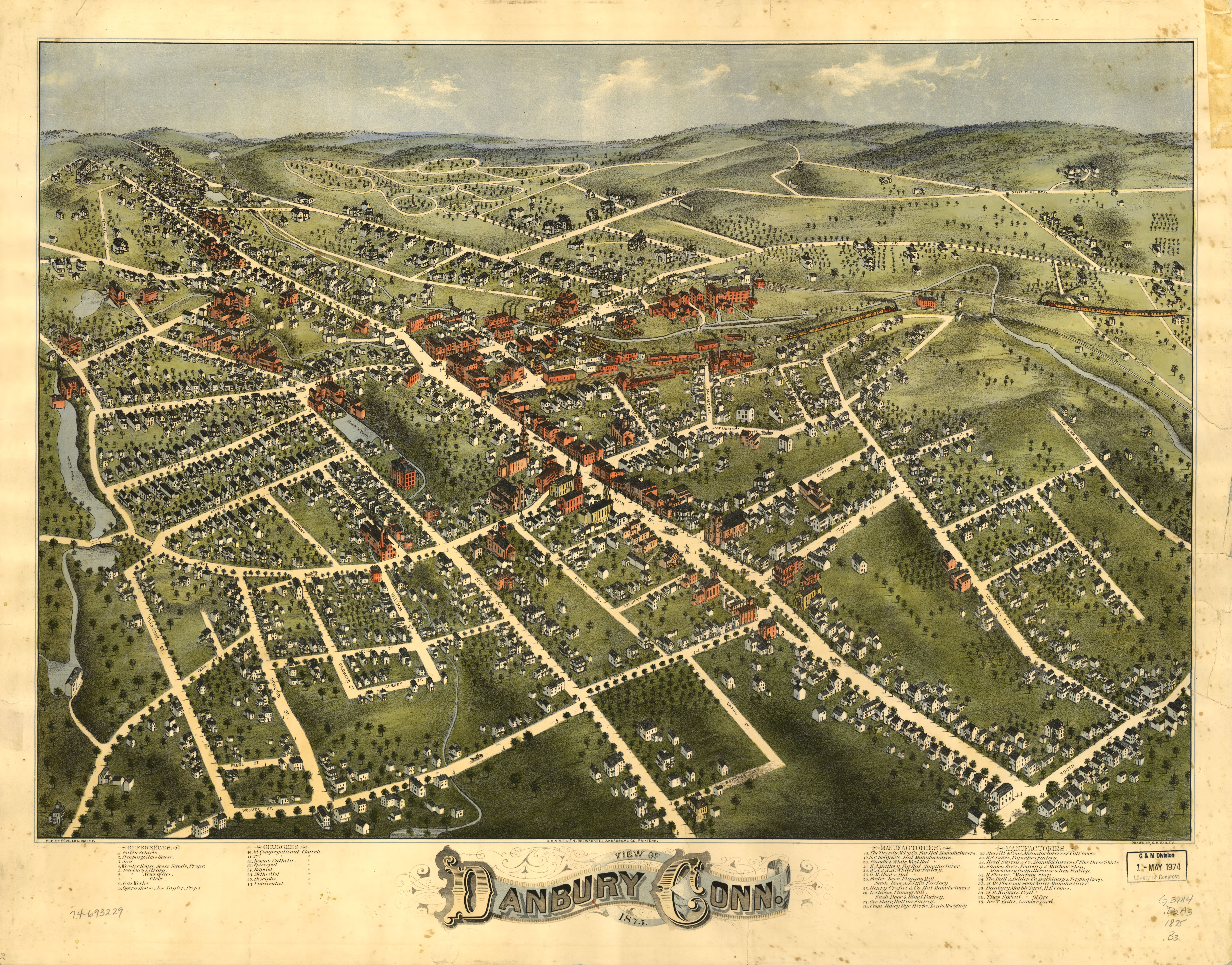 Perspective map not drawn to scale. Hand colored. Bird's-eye-view. LC Panoramic maps (2nd ed.), 79.5 Indexed for points of interest. Available also through the Library of Congress Web site as a raster image. AACR2: 100; 651/1; 710